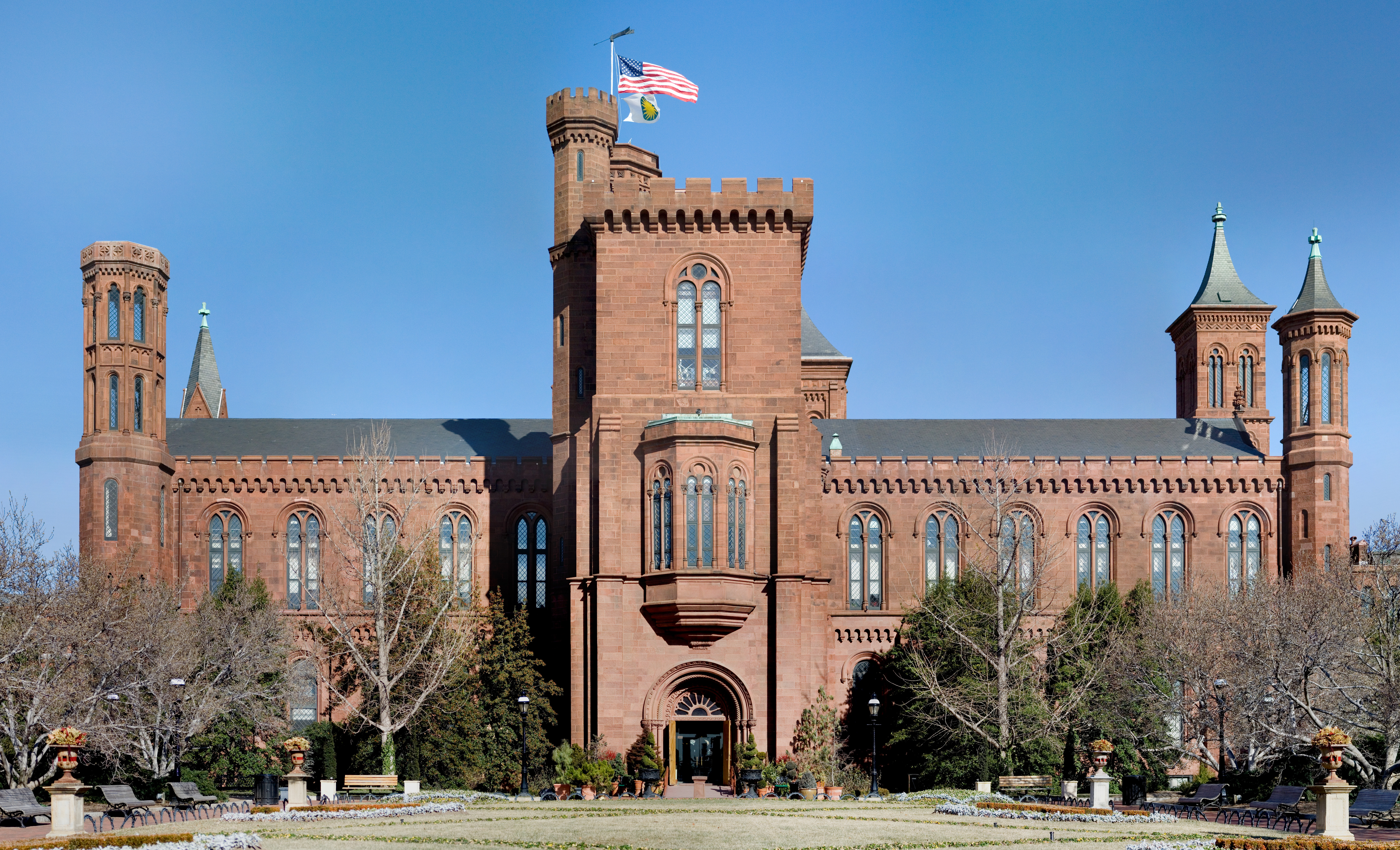 The Smithsonian Institution Building as seen from its courtyard.